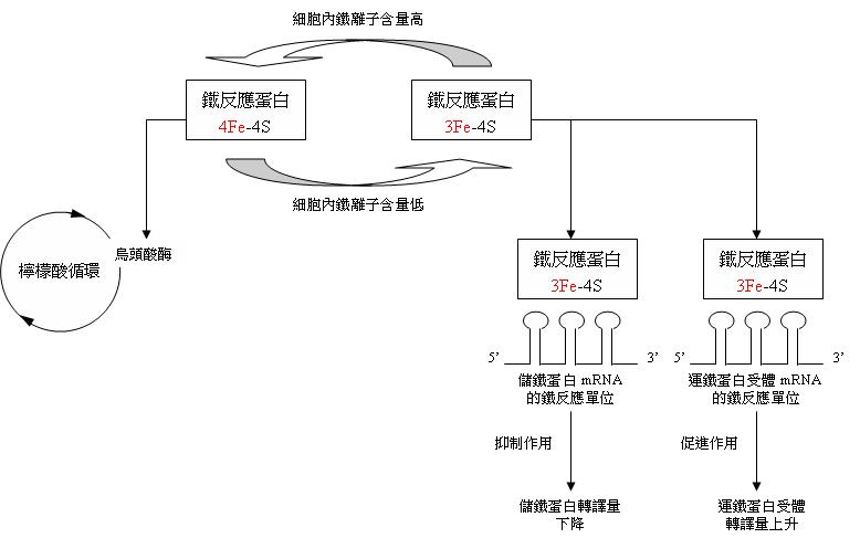 Iron_response.JPG